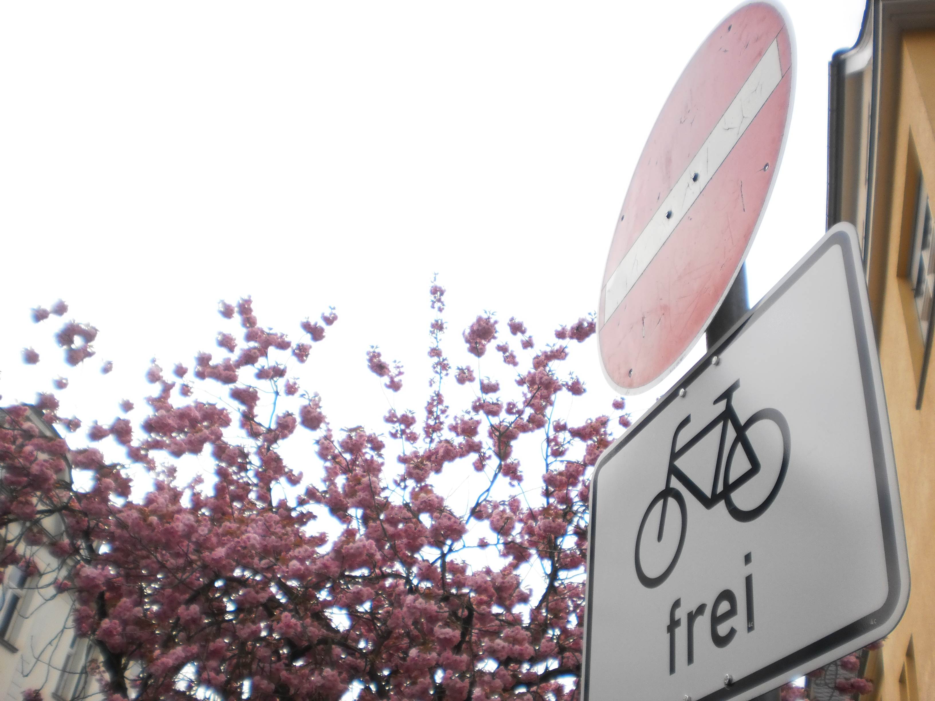 Opening of a one-way-street in Germany with additional sign 1022-10 for contra flow cycling. Photo in April 2017 with cherry blossom in Stresemannstraße, Marburg.